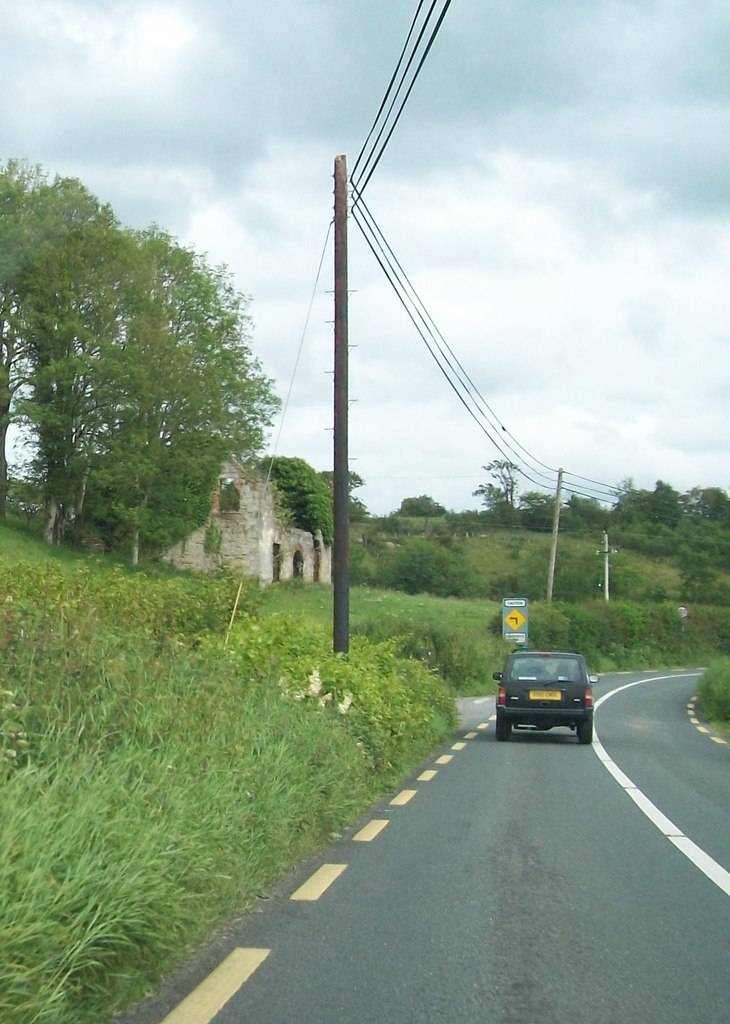 The N87 road at Killyneary townland, Templeport, County Cavan, Ireland, heading south towards Bawnboy village. Ruins are of Bawnboy hall, overlooking Brackley lake.